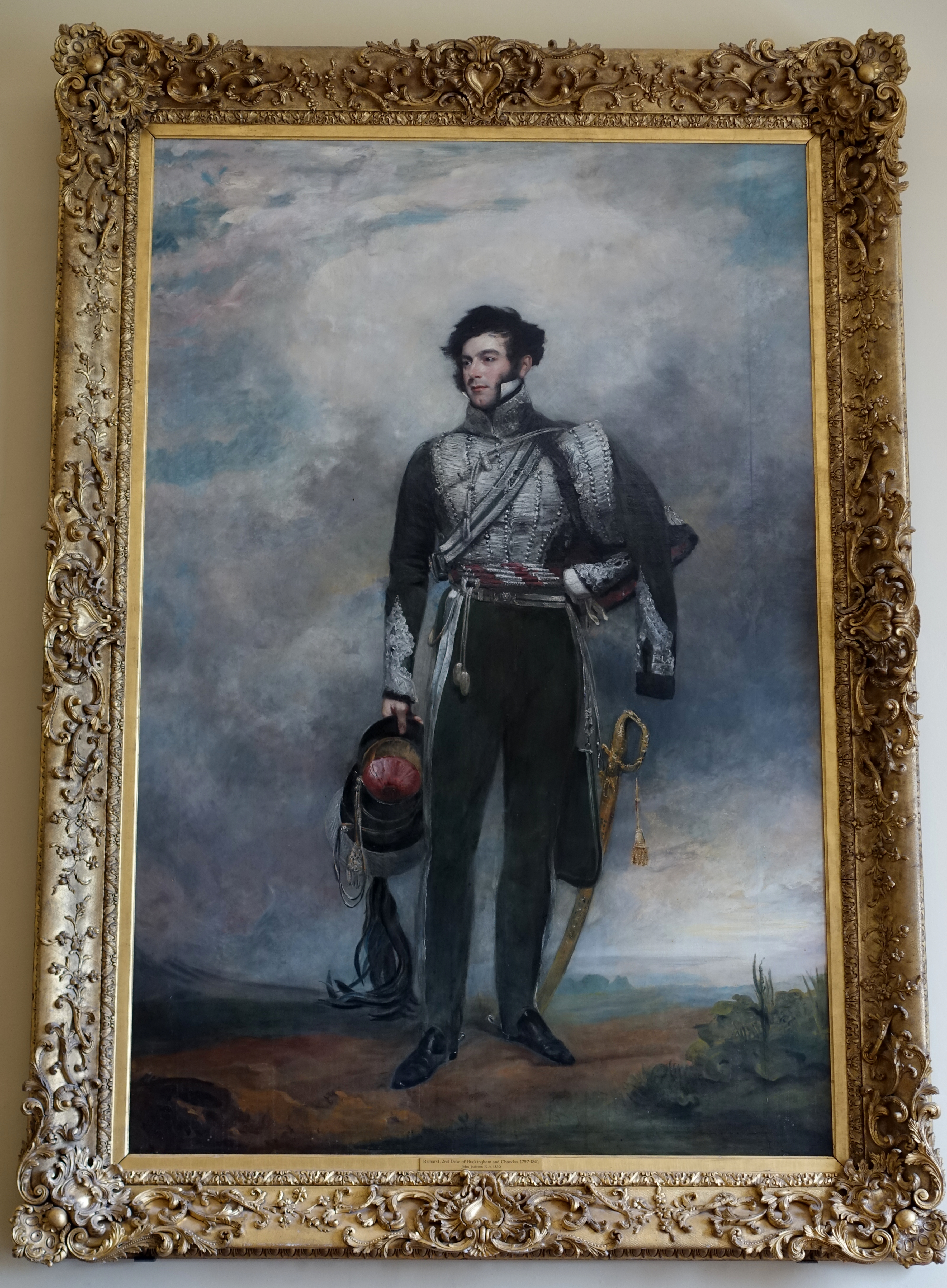 Richard, 2nd Duke of Buckingham and Chandos, by John Jackson, 1830, oil on canvas - Stowe House - Buckinghamshire, England.